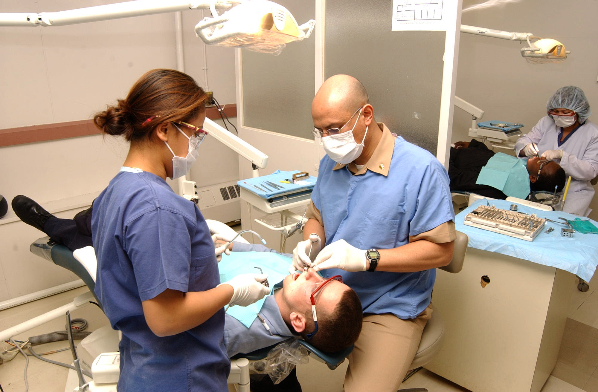 U.S Naval Dental Center Far East, Japan (Feb. 27, 2004) – Navy Dental Officer Lt. Raul Barrientos, right, a native of El Salvador, provides care to a patient at U.S. Naval Dental Center (USNDC) Far East. Barrientos has served at Marine Corps Air Station, Iwakuni and on board USS Kitty Hawk (CV 63) during Operations Enduring Freedom, Southern Watch, and Iraqi Freedom. USNDC Far East provides dental care to Sailors and their families throughout mainland Japan and Guam. U.S. Navy Photo by Tom Watanabe (RELEASED)